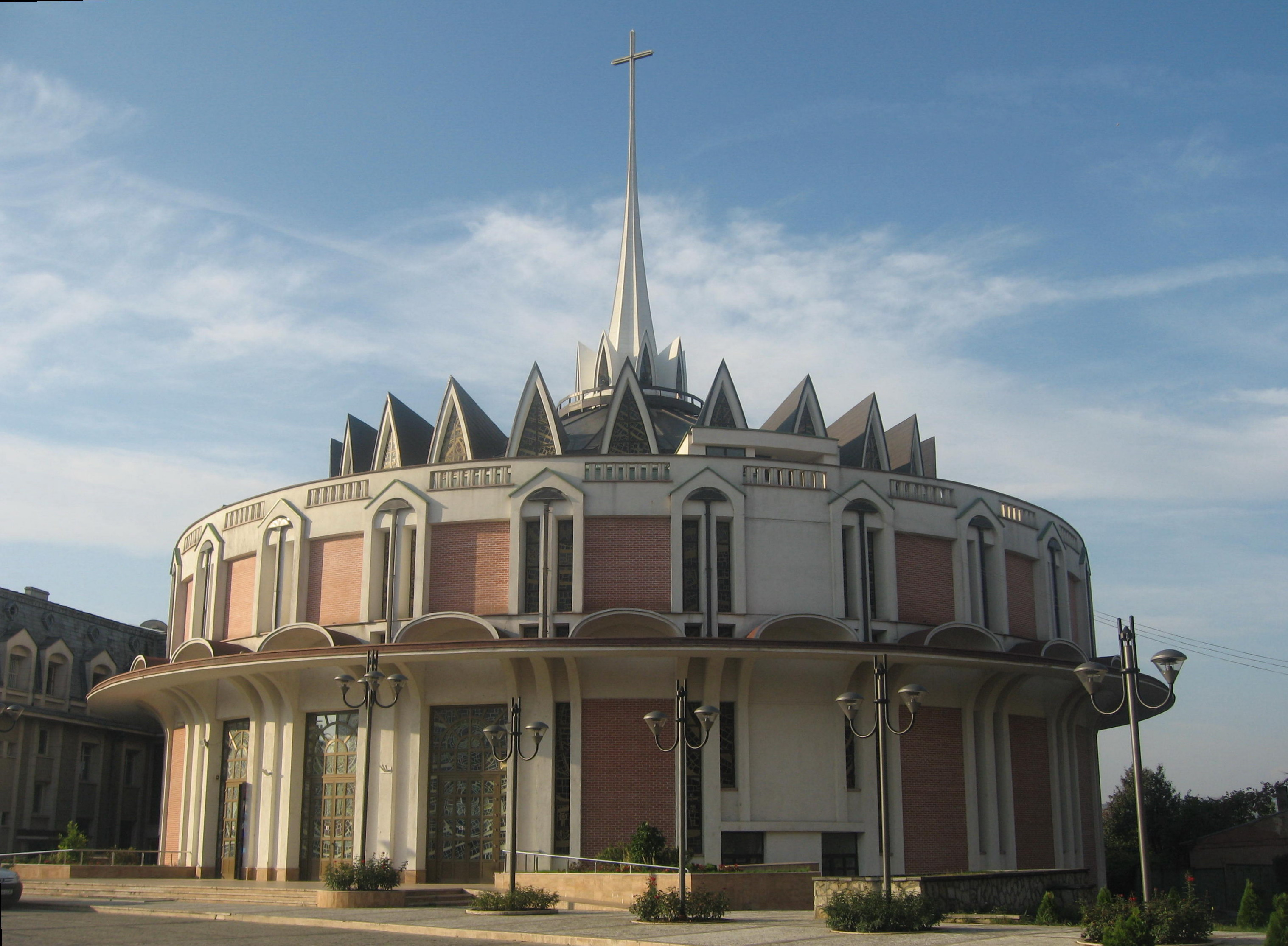 Catedrala Sfânta Maria Regină din Iaşi